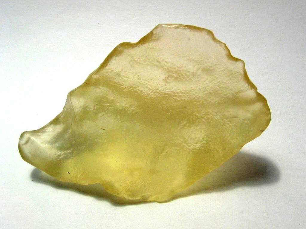 Libyan Desert Glass, a impact glass found in the Great Sand Sea of the Libyan-Egyptian Libyan Desert along the border. This specimen weights 22 grams and is about 55 mm wide.